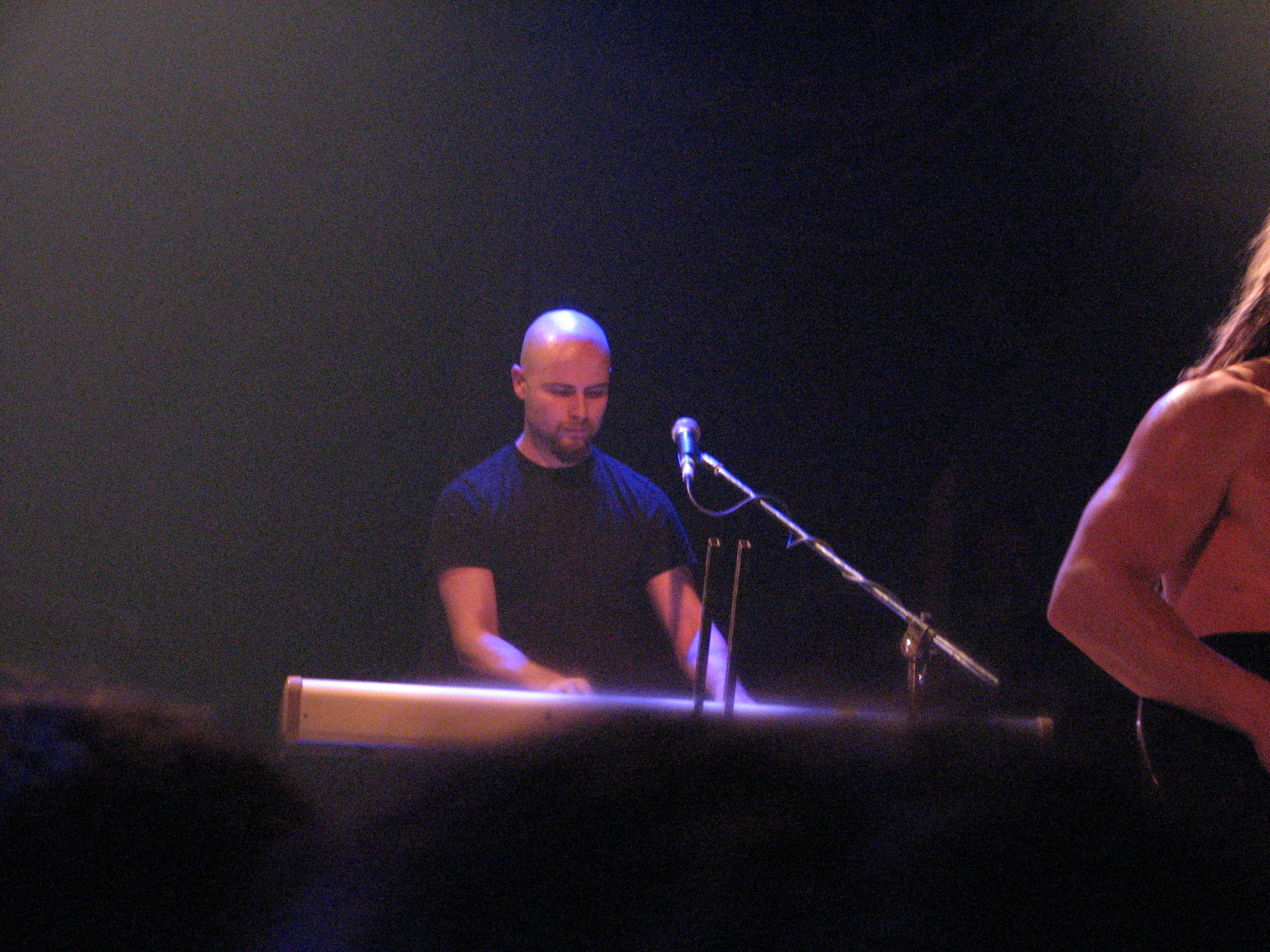 Fredrik Hermansson from a Pain of Salvation convert in Thessaloniki on 31-March-2007